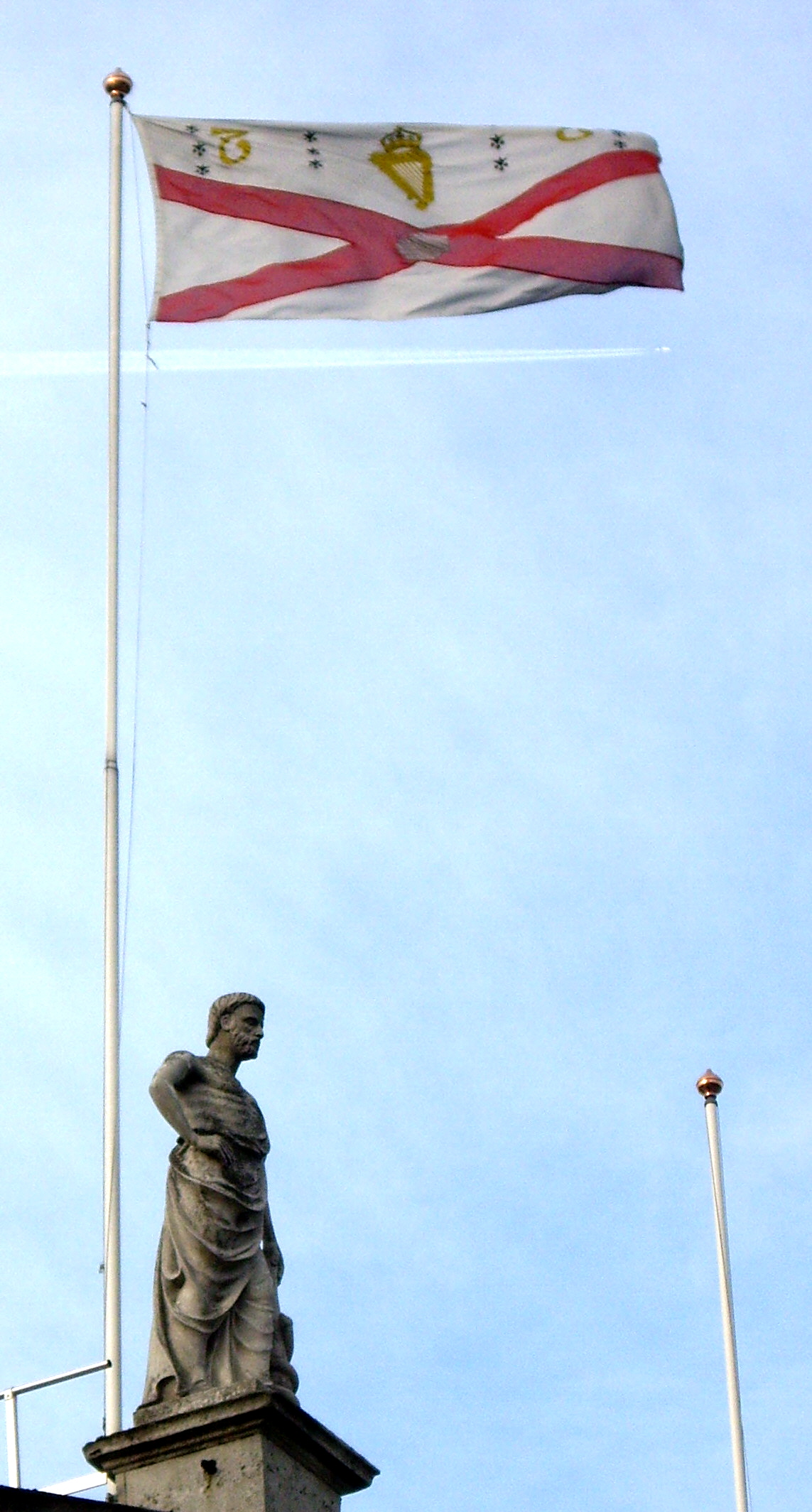 Flag of the Royal College of Surgeons in Ireland flying over its building in St Stephen's Green in Dublin